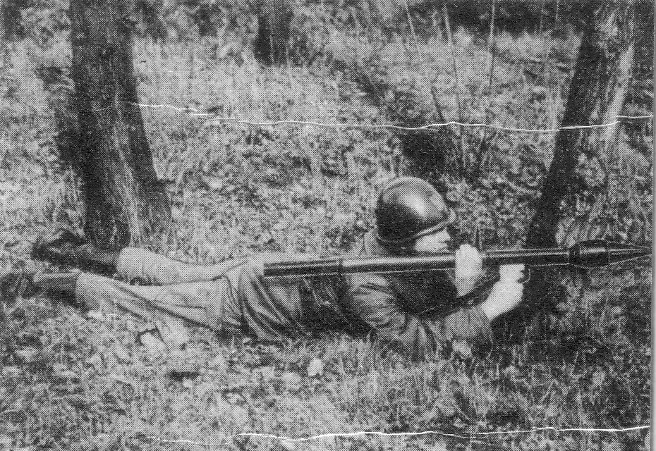 Polish soldier with RPG-2